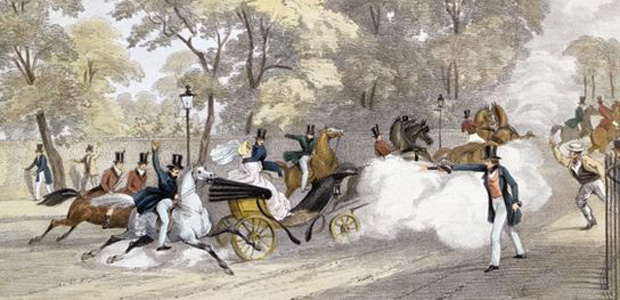 Lithograph by J. R. Jobbins of Edward Oxford attempting to shoot Queen Victoria